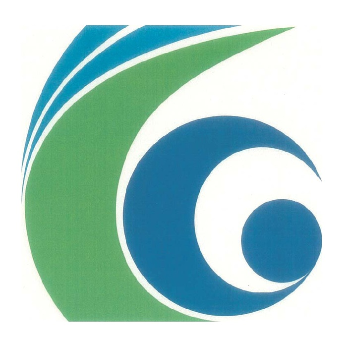 Kihoku Mie chapter